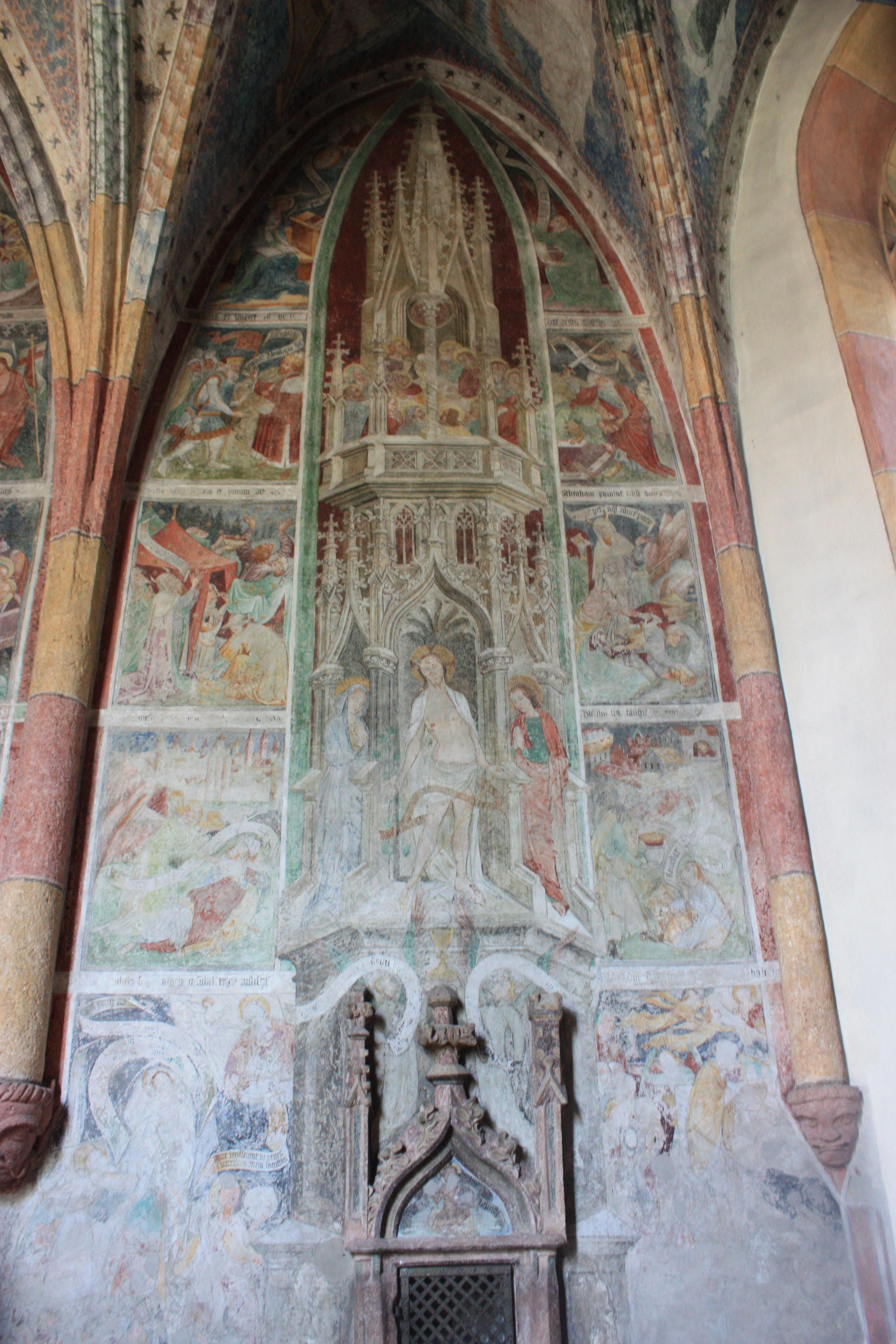 Parish church: Fesco: Man of sorrows Locality:Thörl-Maglern Community:Arnoldstein